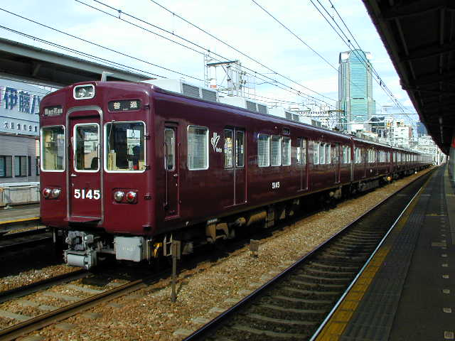 5100 types in Hankyu railway. At Nakatsu Station.